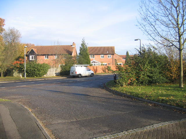 Crafts Way, Bar Hill, Cambs. View N of Crafts Hill and the perimeter road from Thruffle Way.